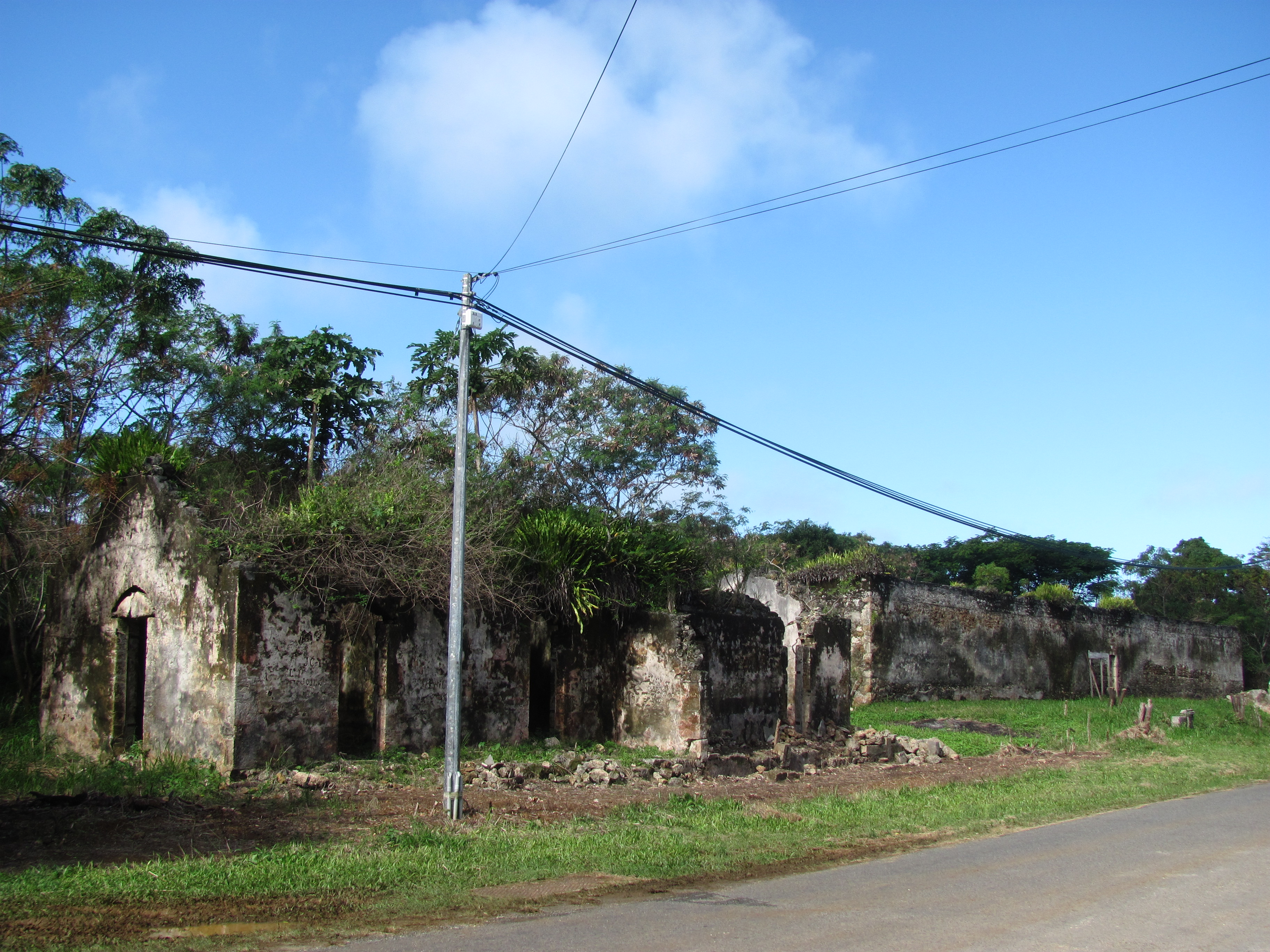 Ruins of the penal colony of Ouro, Ile des Pins, New Caledonia